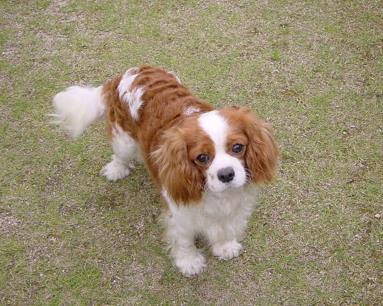 Cavalier King Charles Spaniel